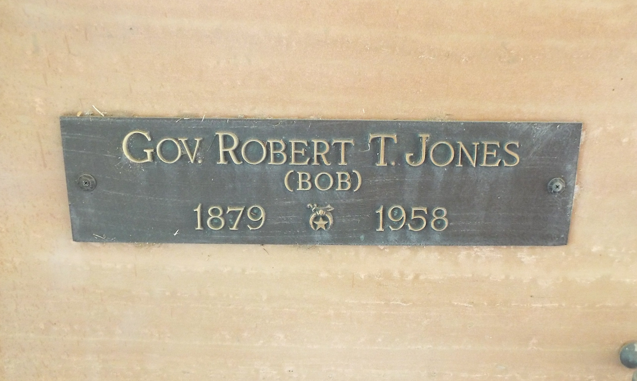 Crypt of Robert Taylor Jones a.k.a. “Bob” (February 8, 1884-June 11, 1958). Jones served as the 6th Governor of Arizona from 1939 to 1941.